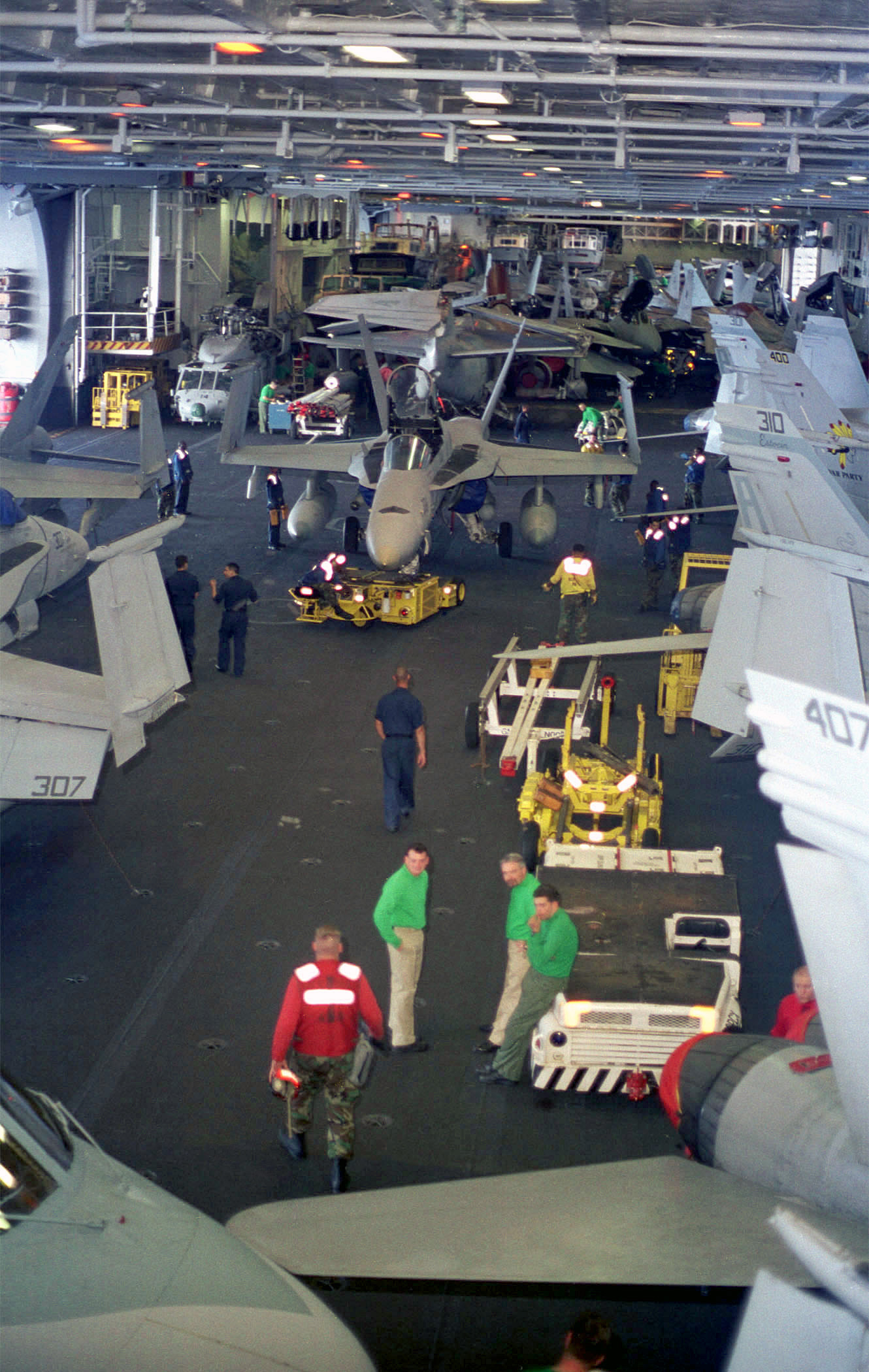 A view inside the aircraft hangar bay aboard aircraft carrier USS ENTERPRISE (CVN 65) as USN sailors perform routine maintenance on various USN aircraft, in preparation for flight operations.